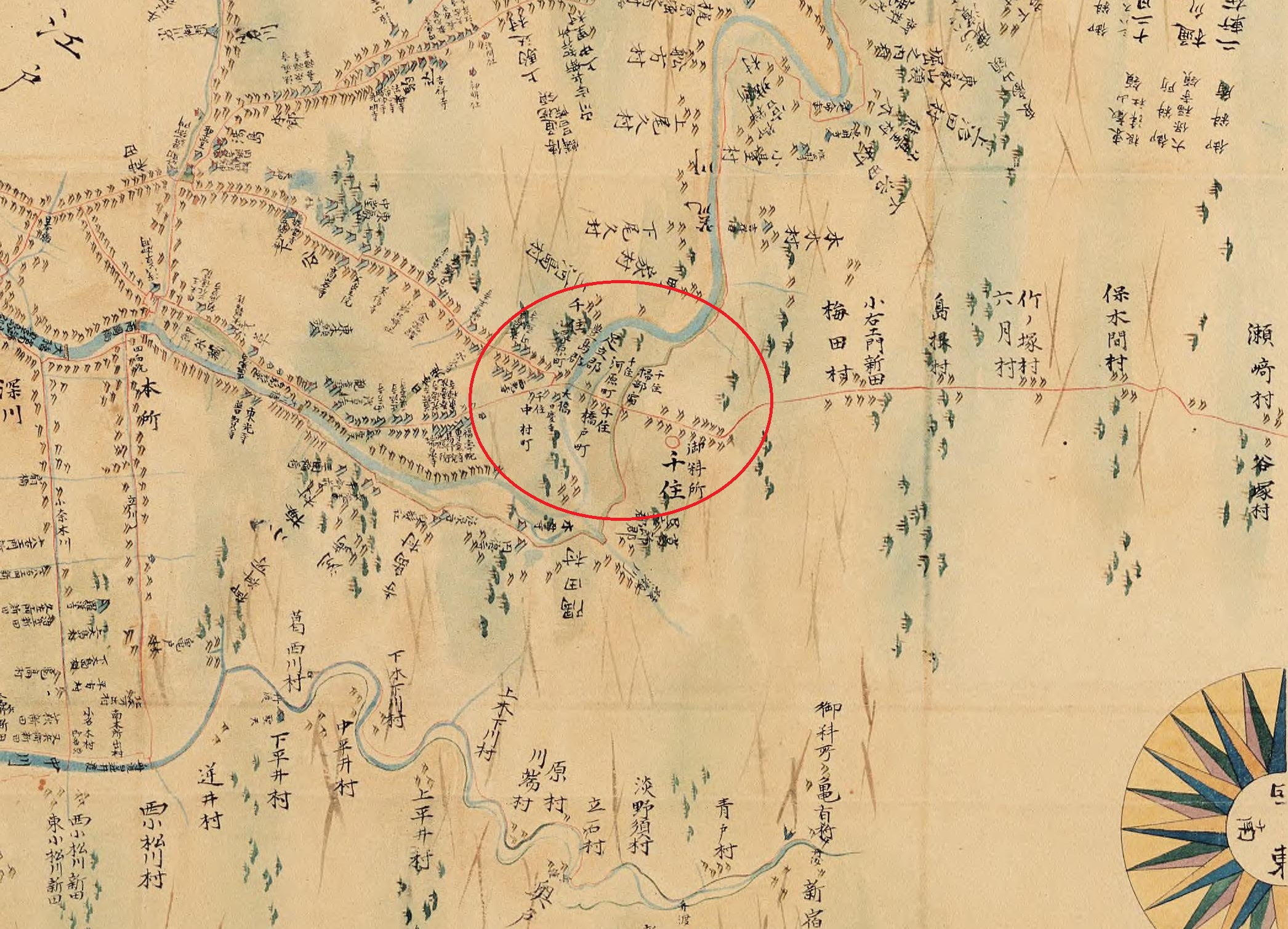 National Diet Library Digital Collection This image is available from the website of the National Diet Library This tag does not indicate the copyright status of the attached work. A normal copyright tag is still required. See Commons:Licensing for more information. English | 日本語 | +/−